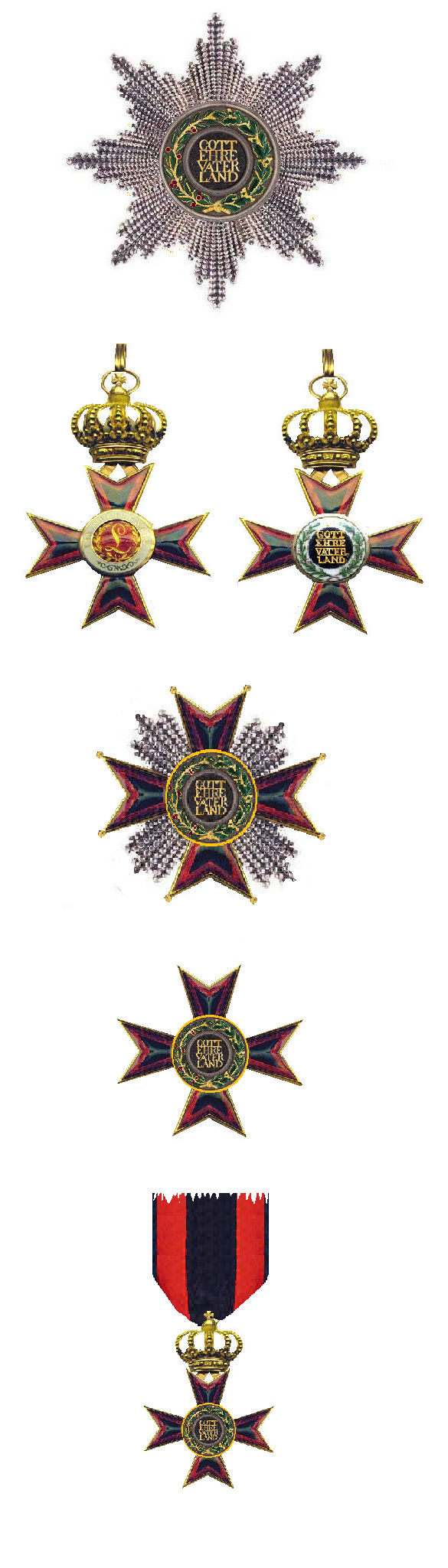 Ludwigsorden Hessen 1918